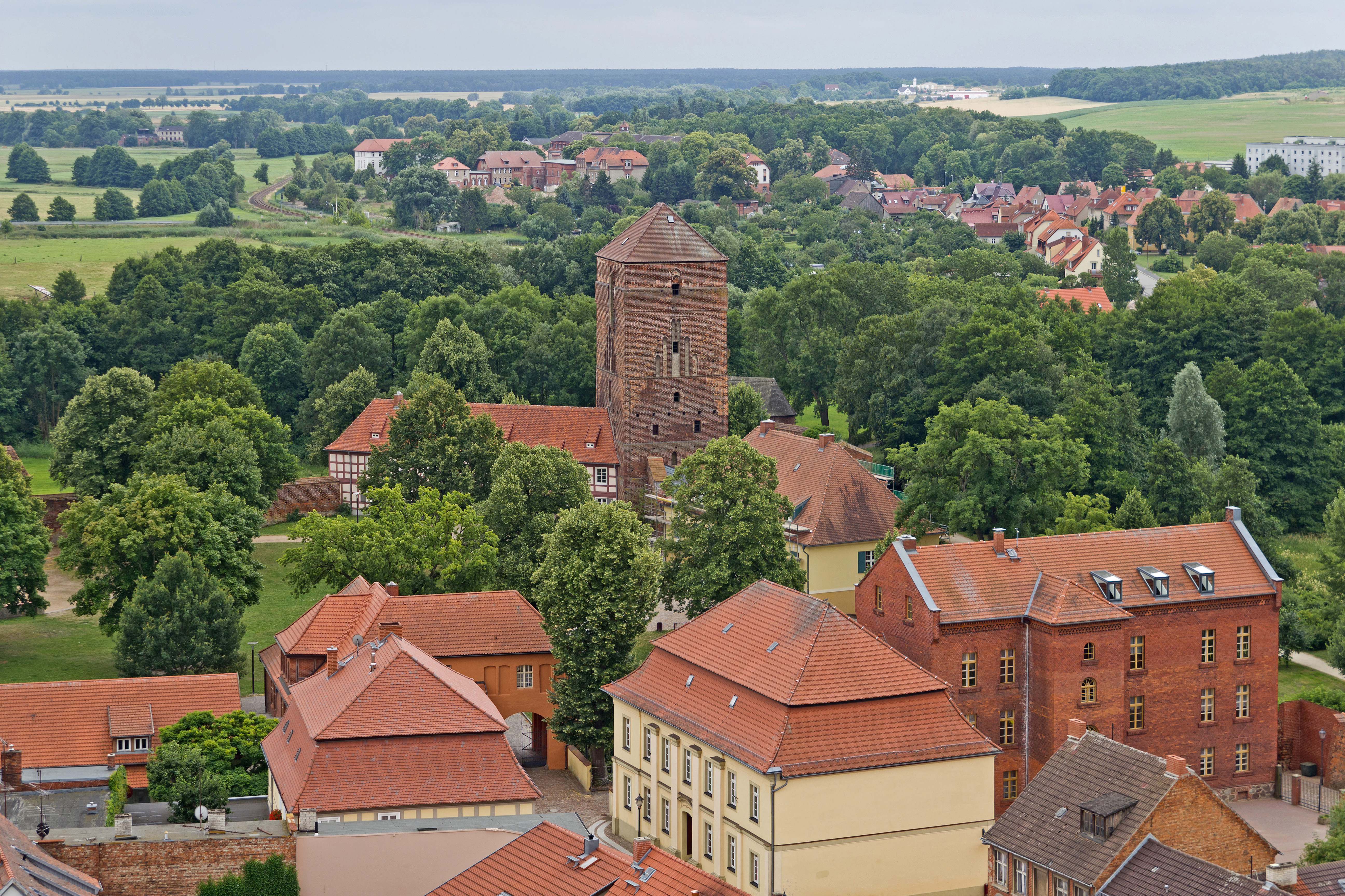 Wittstock/Dosse, Brandenburg, Germany